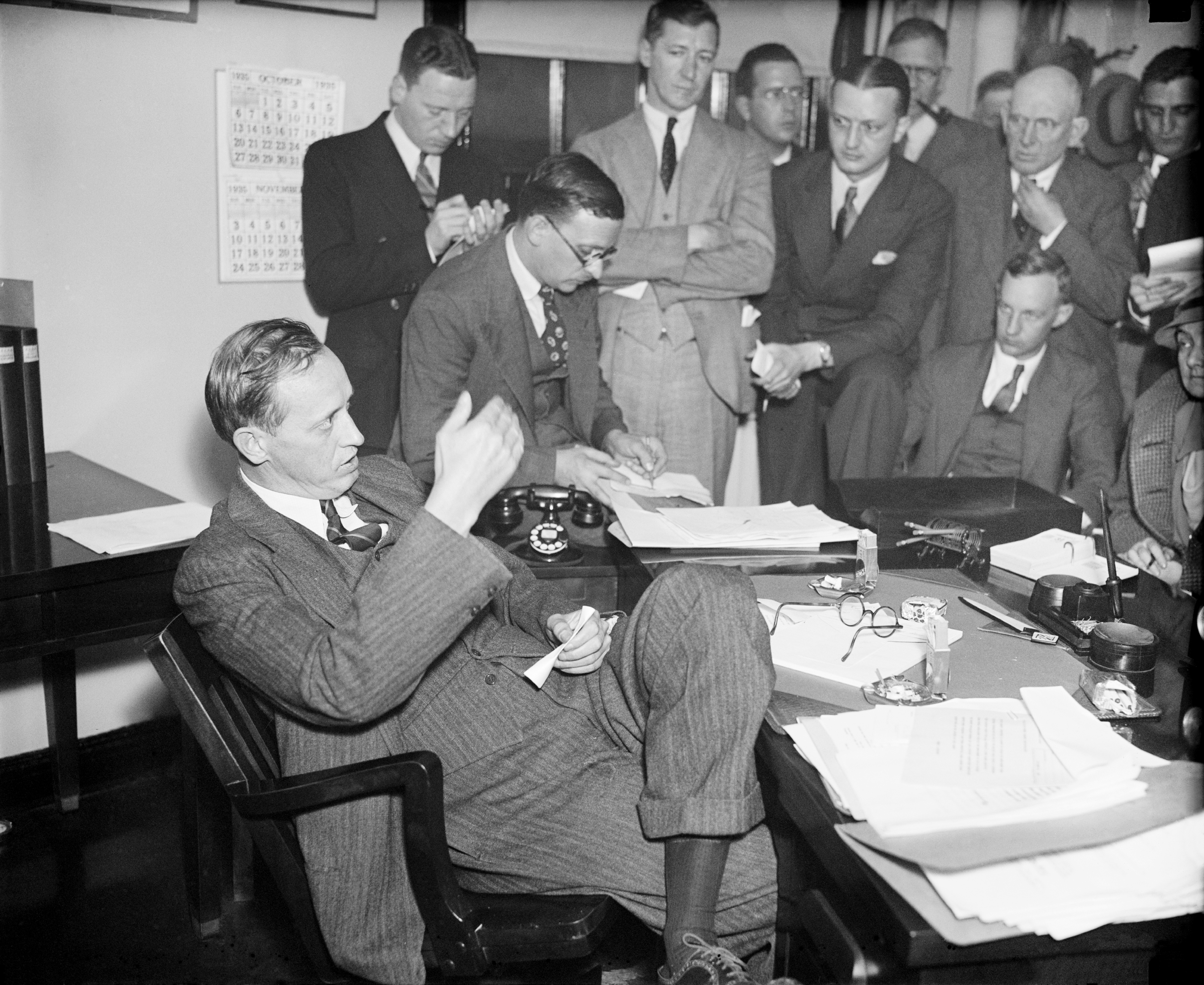 Photograph of Harry Hopkins, head of the Federal Emergency Relief Administration and the Works Progress Administration, speaking to reporters. File description at the Library of Congress: Hopkins slams Gov. Landon. Harry Hopkins, administrator of FERA and head of WPA, tells reporters that Gov. Alf Landon of Kan., "balanced his budget in Kansas by taking money out of the hides of the needy." He said further that Landon's administration "had never put up a thin dime for relief." 11/1/35